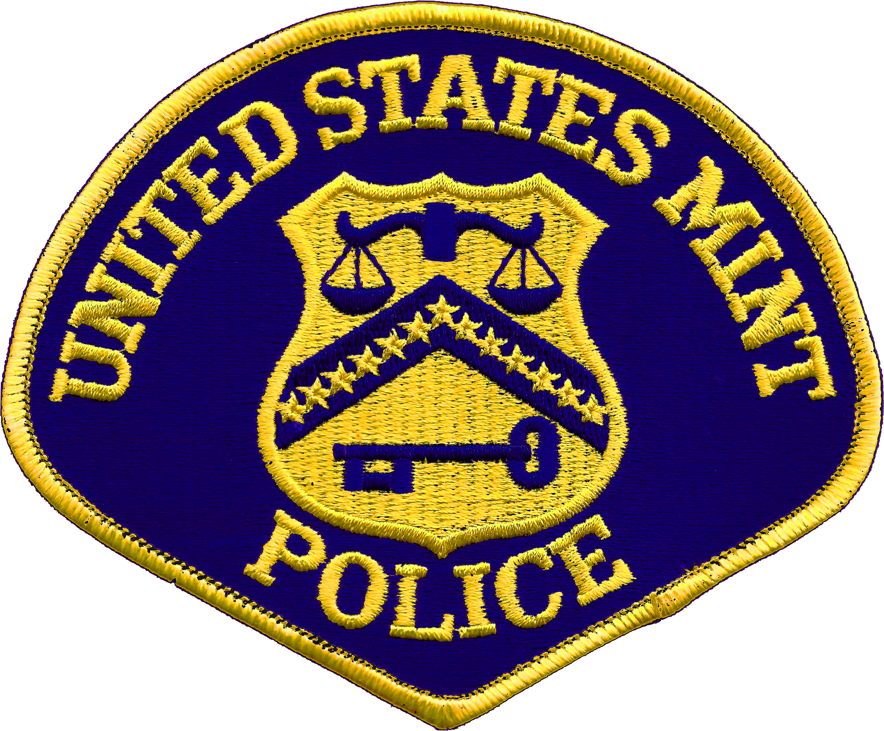 A uniform patch of the United States Mint Police (USMP), consisting of the United States Treasury Department's official coat of arms, flanked by the words "UNITED STATES MINT" on the top, and on the bottom, "POLICE". The United States Mint Police is a part of the United States Mint, which is a subsidiary agency of the United States Department of the Treasury. As a result, this image is in the public domain as a work of the federal government of the United States of America.